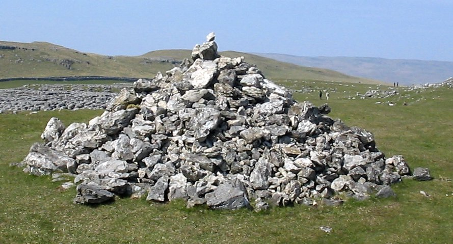 A cairn north of Gordale Scar, Malham, England. David Benbennick took this photo on Sunday, April 24, 2005 at 1:10 PM (12:10 UTC).